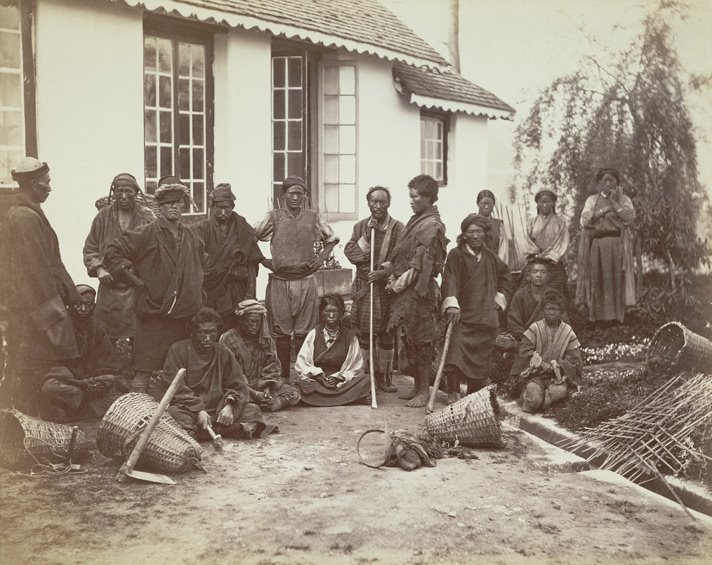 Photograph of Tibetan and Bhutia coolie labourers, from an album of Miscellaneous views in India, taken John H. Doyle in the 1870s. Coolies were hired labourers or burden carriers. Bhutias were Himalayan people who are believed to have emigrated southward from Tibet in the 9th century or later. The Bhutia constitute a majority of the population of Bhutan and form minorities in Nepal and India, particularly in Sikkim and Darjeeling.